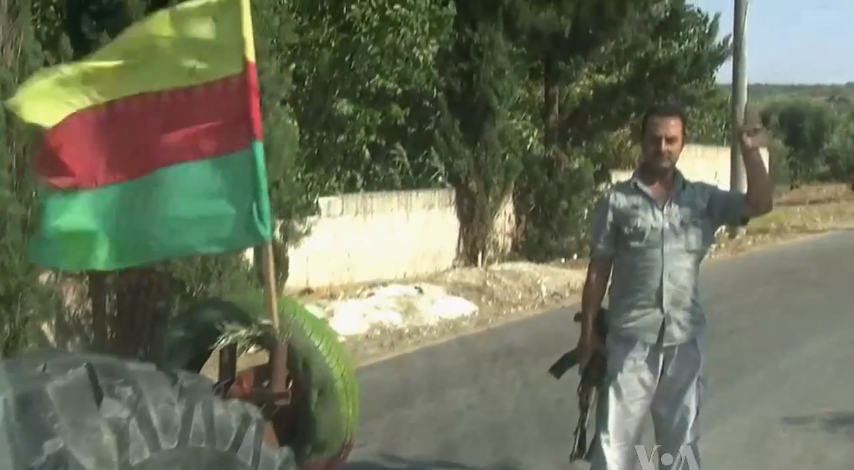 PYD militiaman manning a checkpoint in Afrin, Syria, during the 2012 Syrian Kurdistan rebellion.